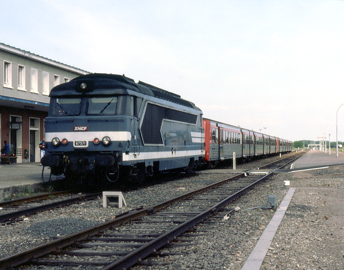 A once common scene in France and in 2012 very much a dying breed. Seen at Wissembourg on 5 June 1991 is BB 67561 on a train comprised of two fixed-formed RRR push-pull sets. The train having just arrived was no. 66296, 16:34 Strasbourg to Wissembourg. At the time Wissembourg was a dead end end branch service although the connection over the nearby German border was opened for freight traffic. In March 1997, passenger services (operated by DB) were re-instated after many years.